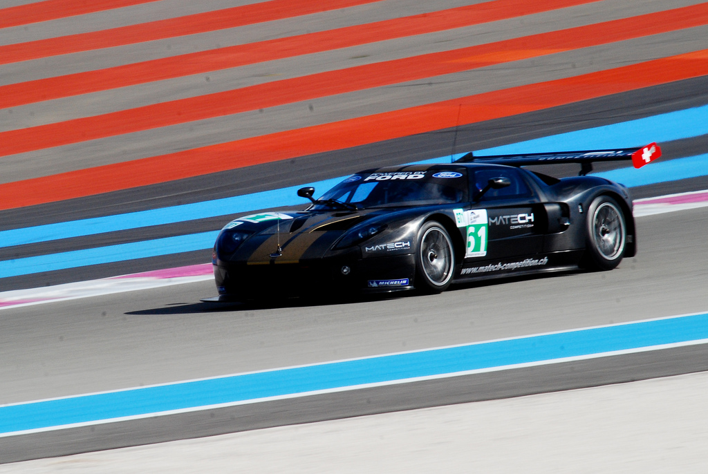 Ford GT #61 of Matech Competition driven by Thomas Mutsch, Natacha Gachnang, Cyndie Allemann, Rahel Frey, Enrique Bernoldi.